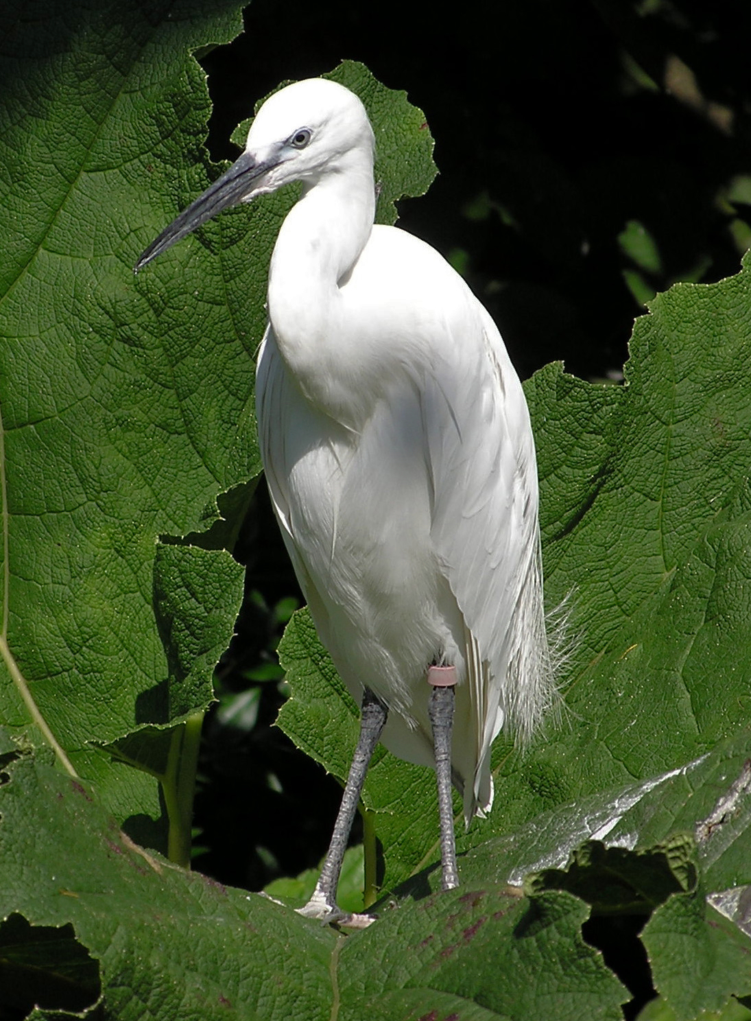 Little Egret Egretta garzetta stands on a leaf in the Wallace Aviary at Bristol Zoo, Bristol, England.